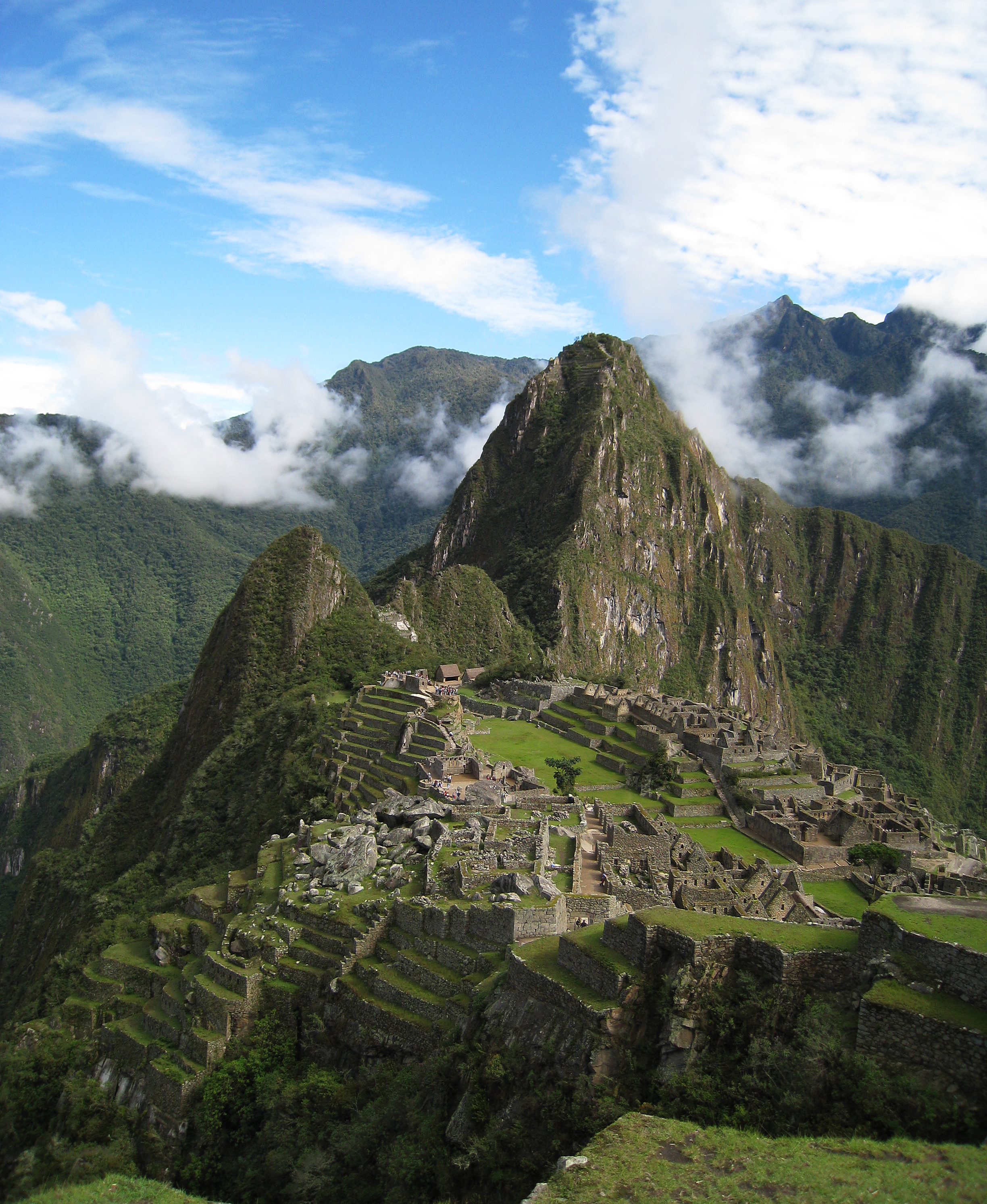 View of Machu Picchu from a short way above the site, hiking towards the Dawn Gate. This view highlights both Wayna Picchu and the spread of the city below it, both the highlights of the construction and the reinforcing terraces descending down towards the valley floor.